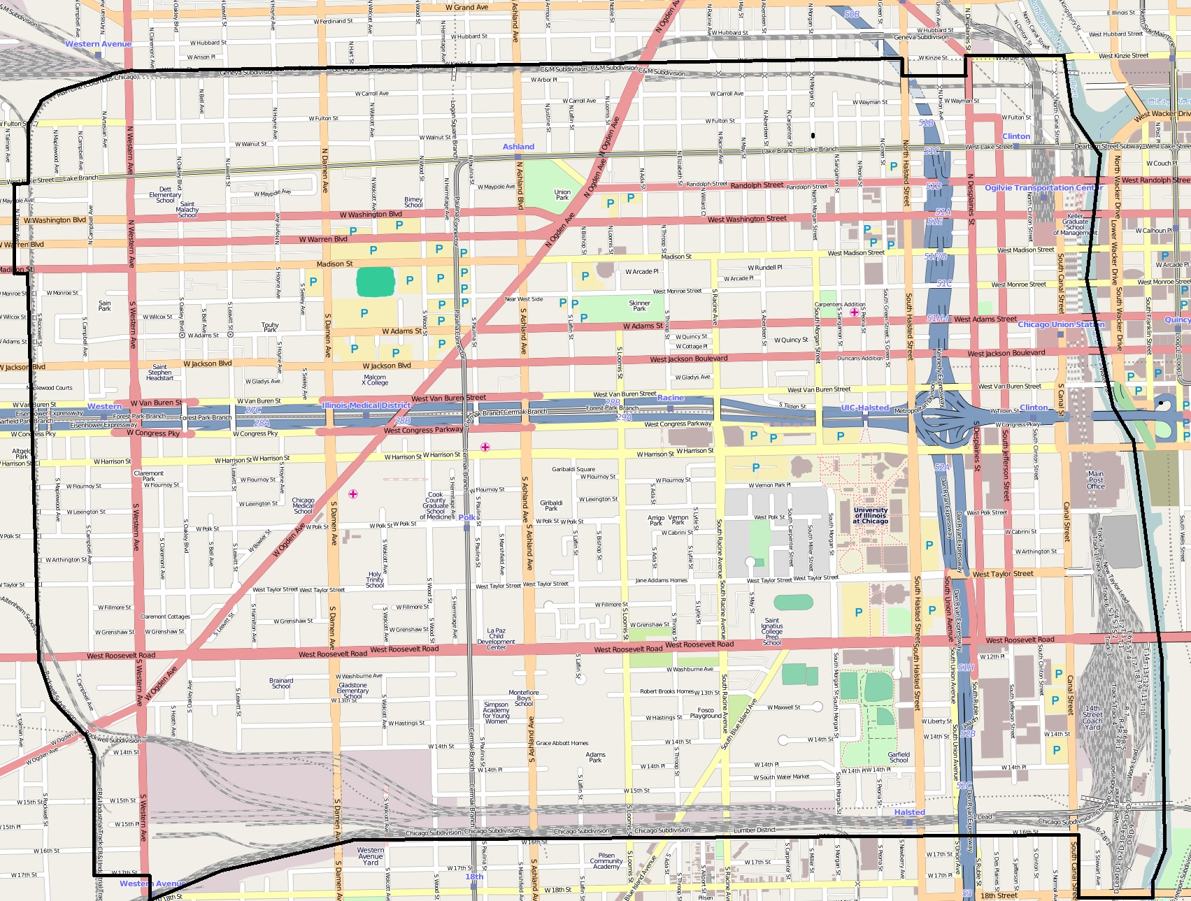 Near West Side, Chicago This map may be incomplete, and may contain errors. Don't rely solely on it for navigation.